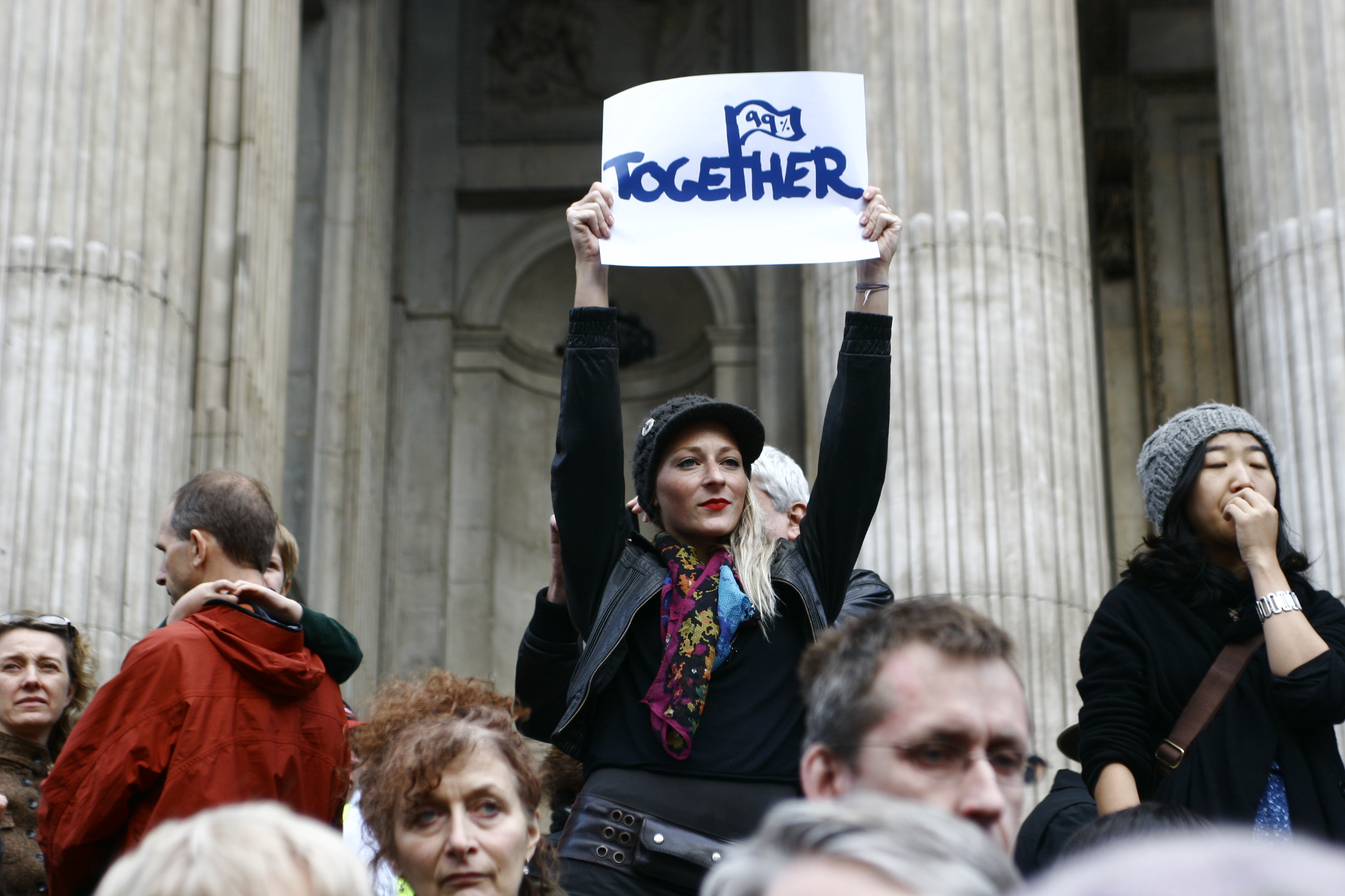 foto by Lee Hassl